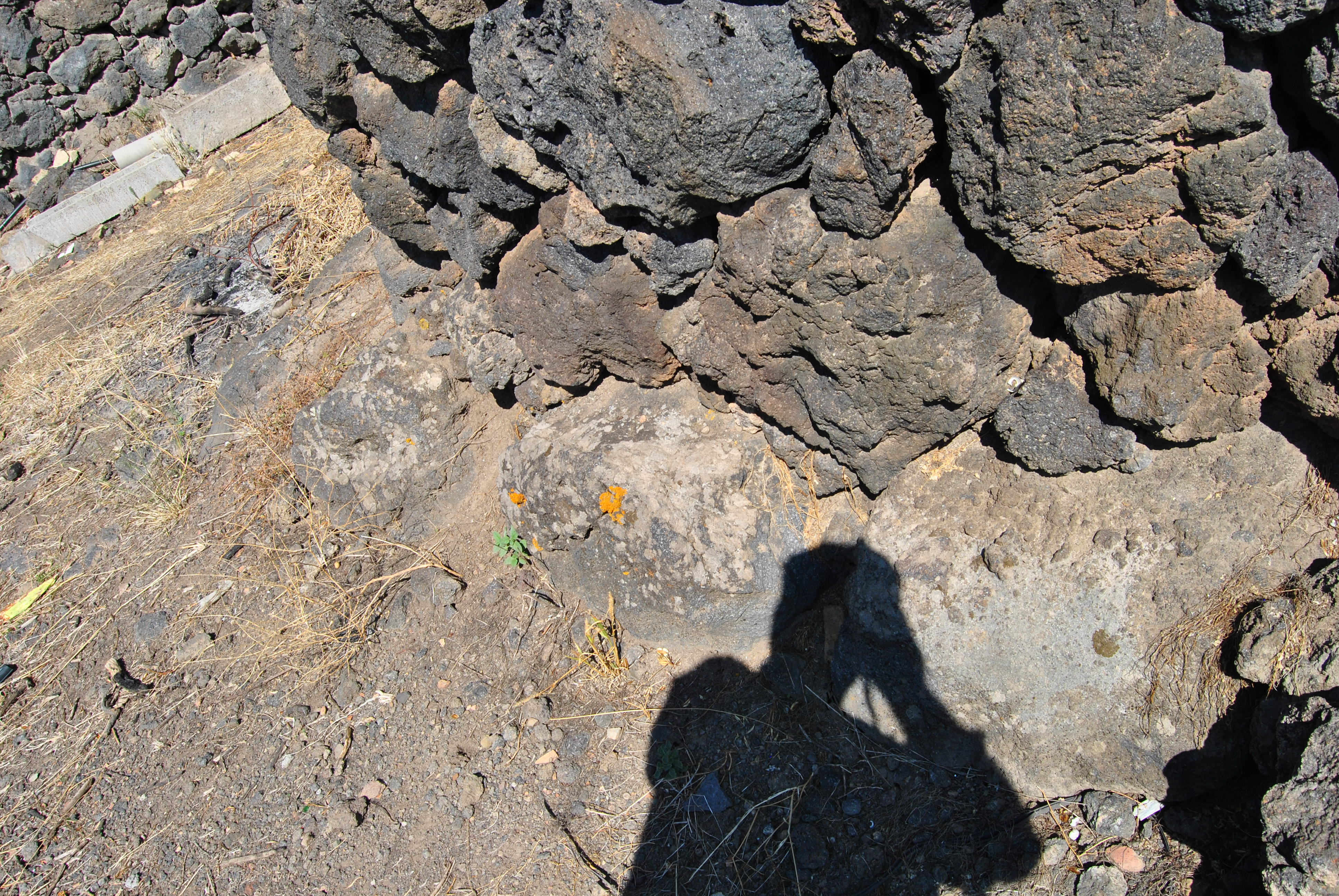 Porta di Mendolito - Basamento